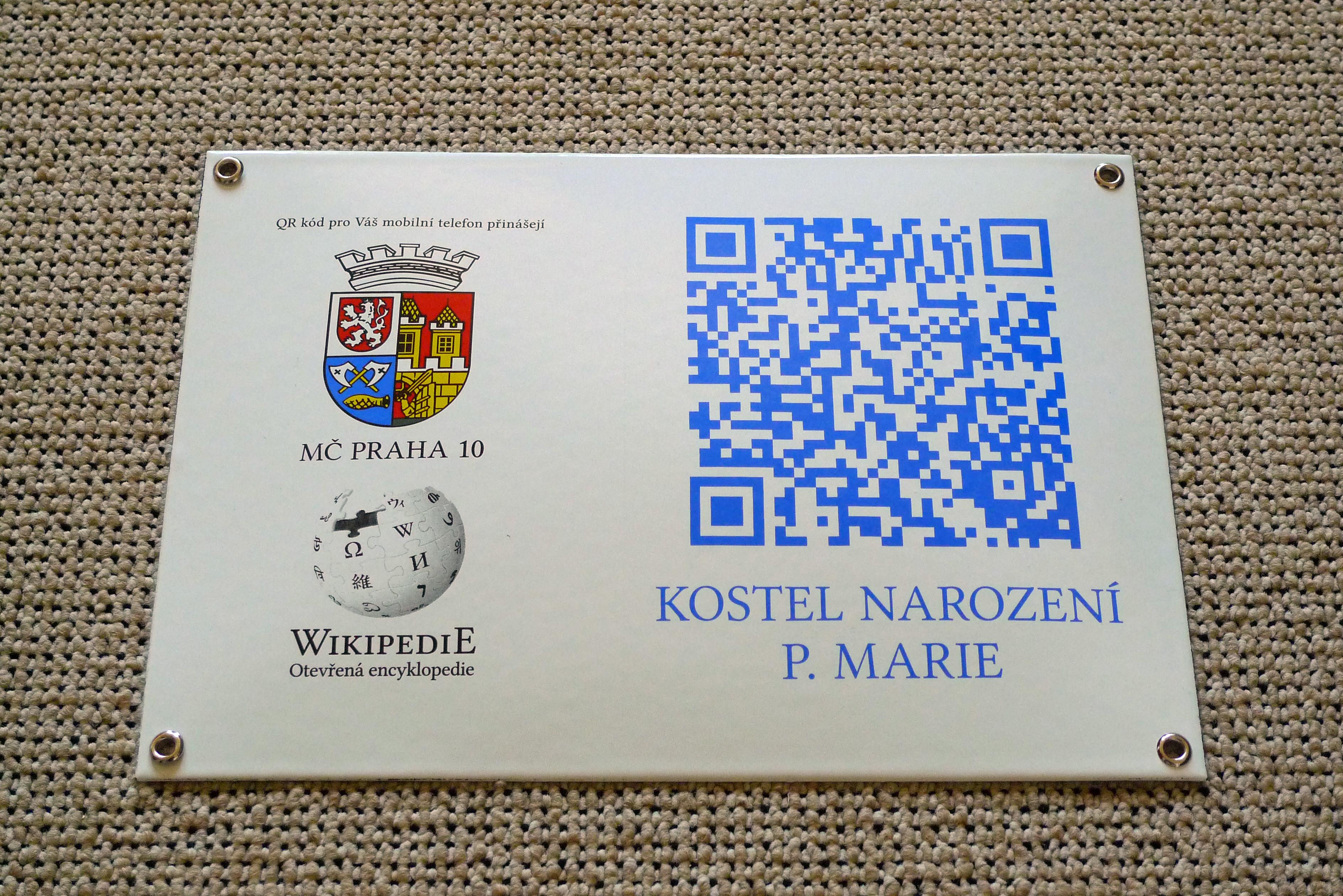 QRpedia in Prague 10